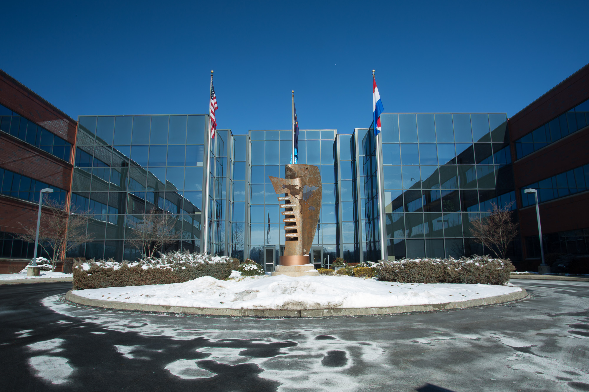 Headquarters office DLL, Wayne, USA